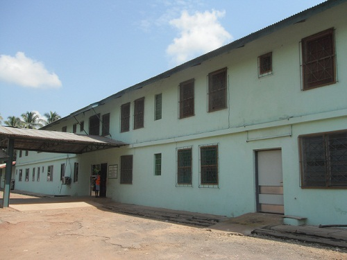 Exterior of the St John of God Hospital, Mabesseneh, Lunsar, Sierra Leone, West Africa